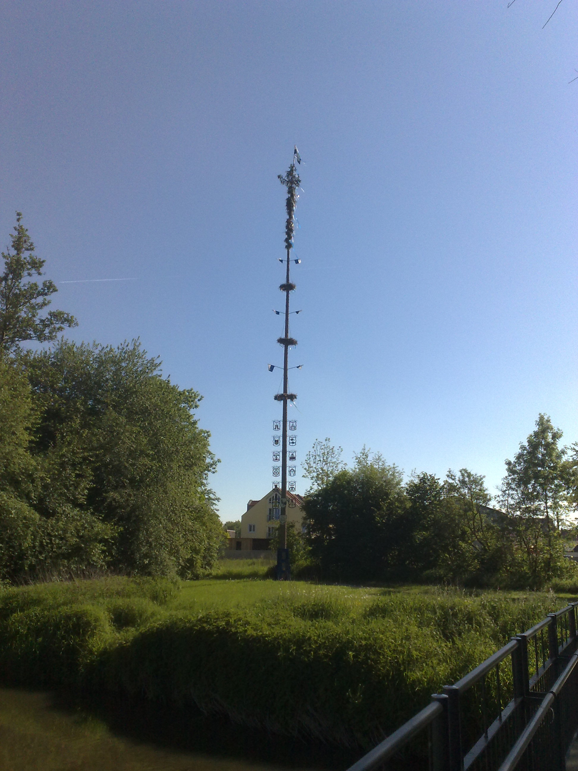 Maypole in Vohburg